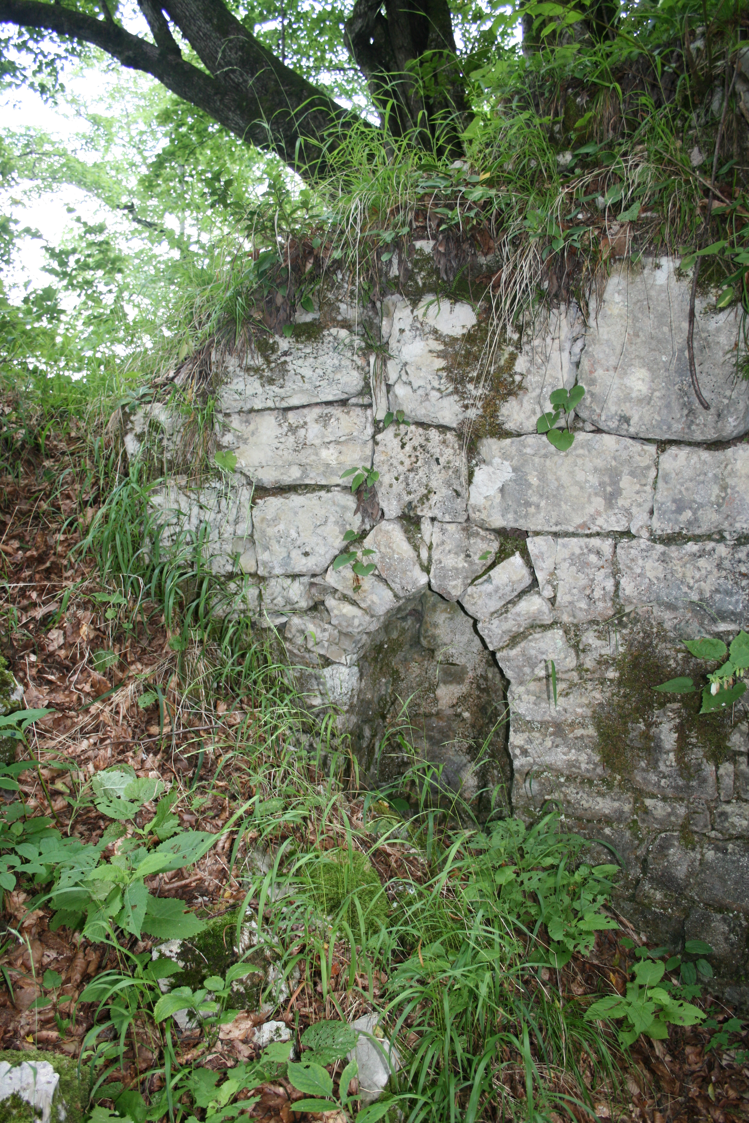 Ruins of the old Christian temple on the Lashkendar mountain in the Tkvarcheli district of Abkhazia